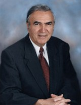 George Gekas portrait.